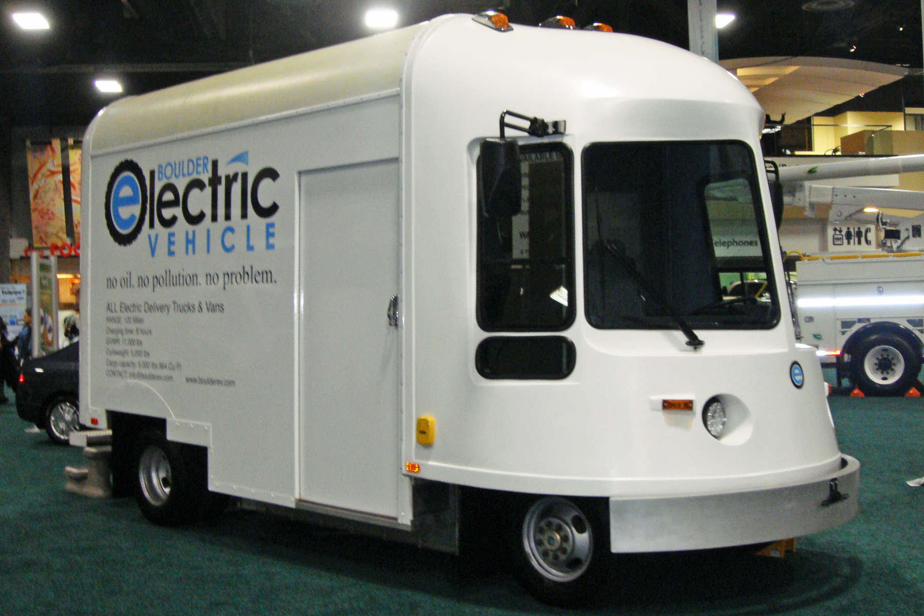 Boulder electric vehicle delivery truck at the 2010 Washington Auto Show